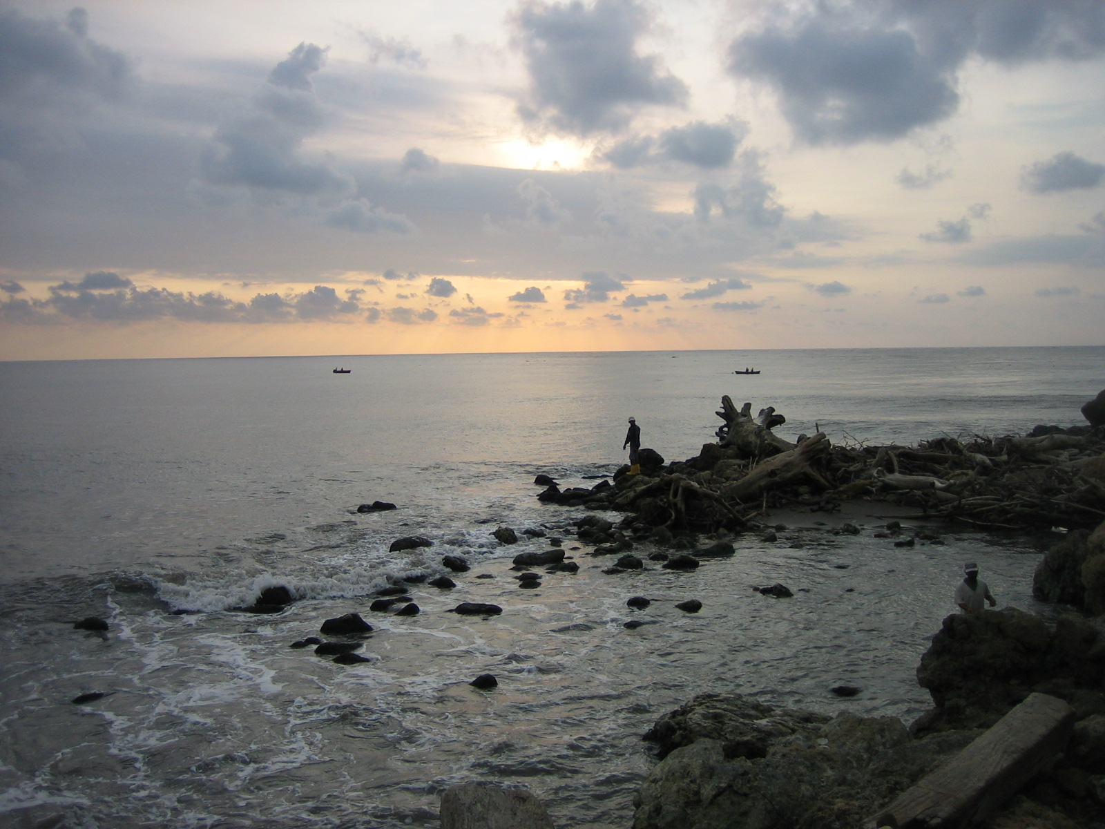 Sunset from the jetee of the Bocas de Cenizas, Barranquilla.